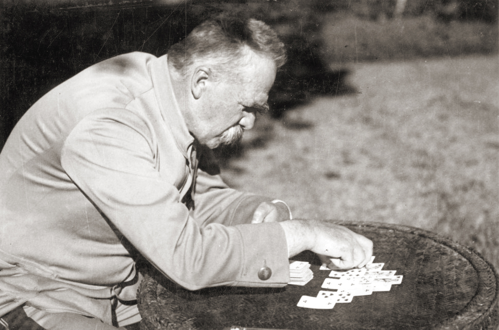 Marshall Józef Piłsudski (1867-1935) playing cards.